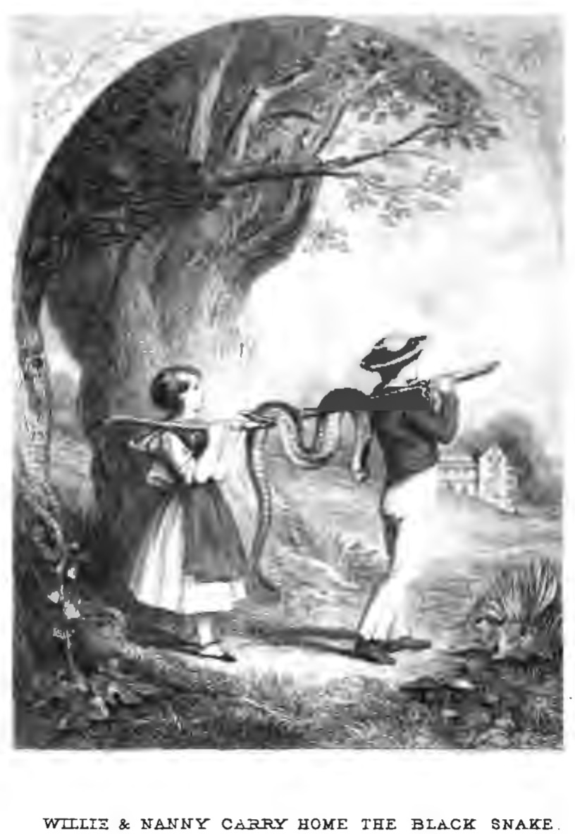 This is one of four illustrations done by Anna Mary Howitt for her Mary Botham Howitt's Our Cousins in Ohio (1849)